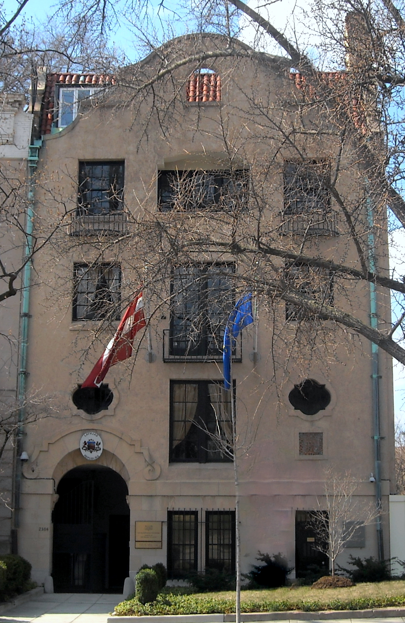 The Embassy of Latvia (also known as the Alice Pike Barney Studio House or Studio House) located on Sheridan Circle at 2306 Massachusetts Avenue, NW in the Sheridan-Kalorama neighborhood of Washington Designed by Waddy Butler Wood in 1902, the former residence of Alice Pike Barney is an example of Spanish Colonial Revival Style architecture. In addition to being listed on the National Register of Historic Places, the building is a contributing property to the Sheridan-Kalorama Historic District and Massachusetts Avenue Historic District. The property is valued at $4,989,160 (main building) and $1,213,220 (garage).